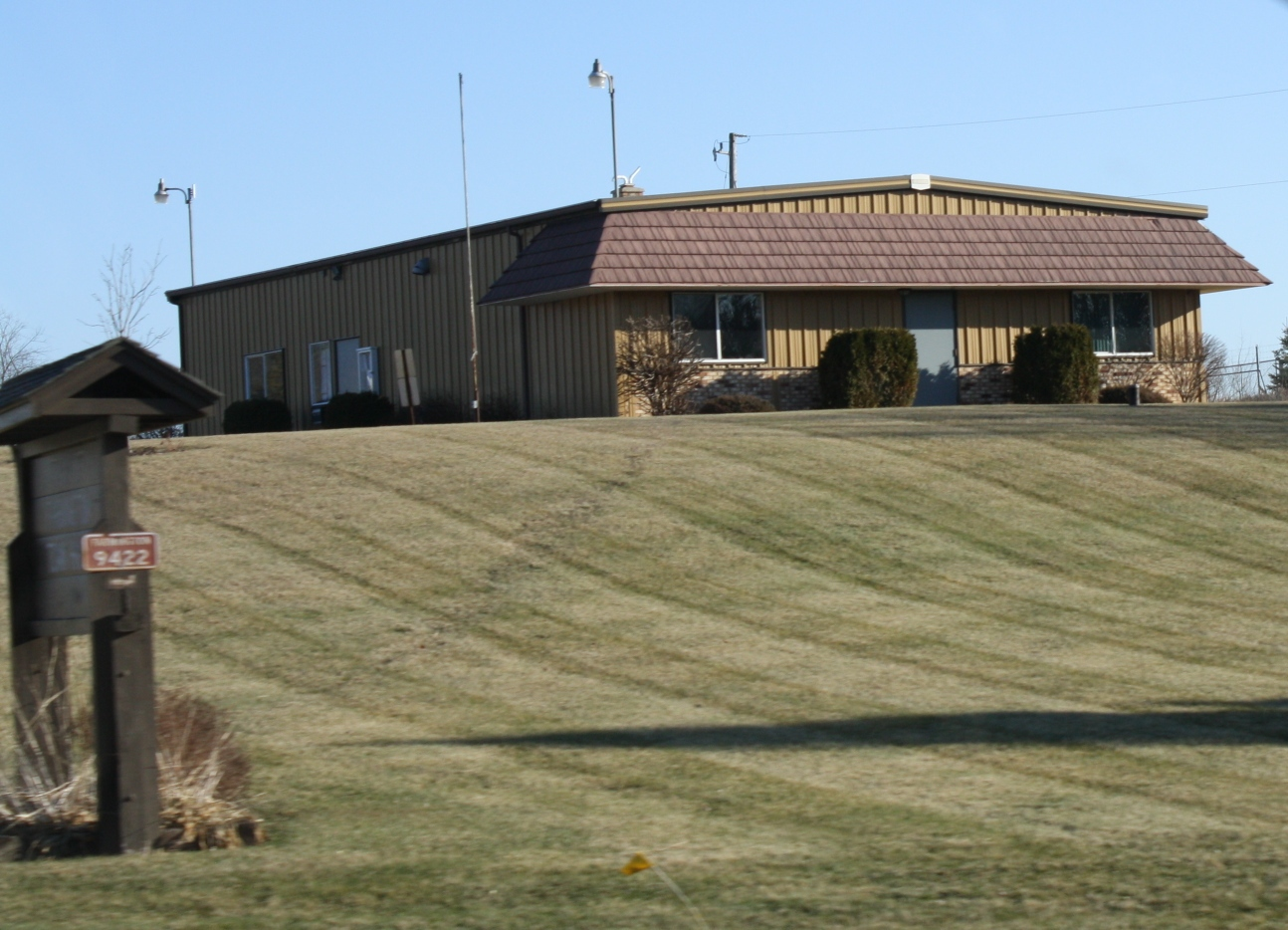 The town hall for Farmington, Washington County, Wisconsin from Wisconsin Highway 28.